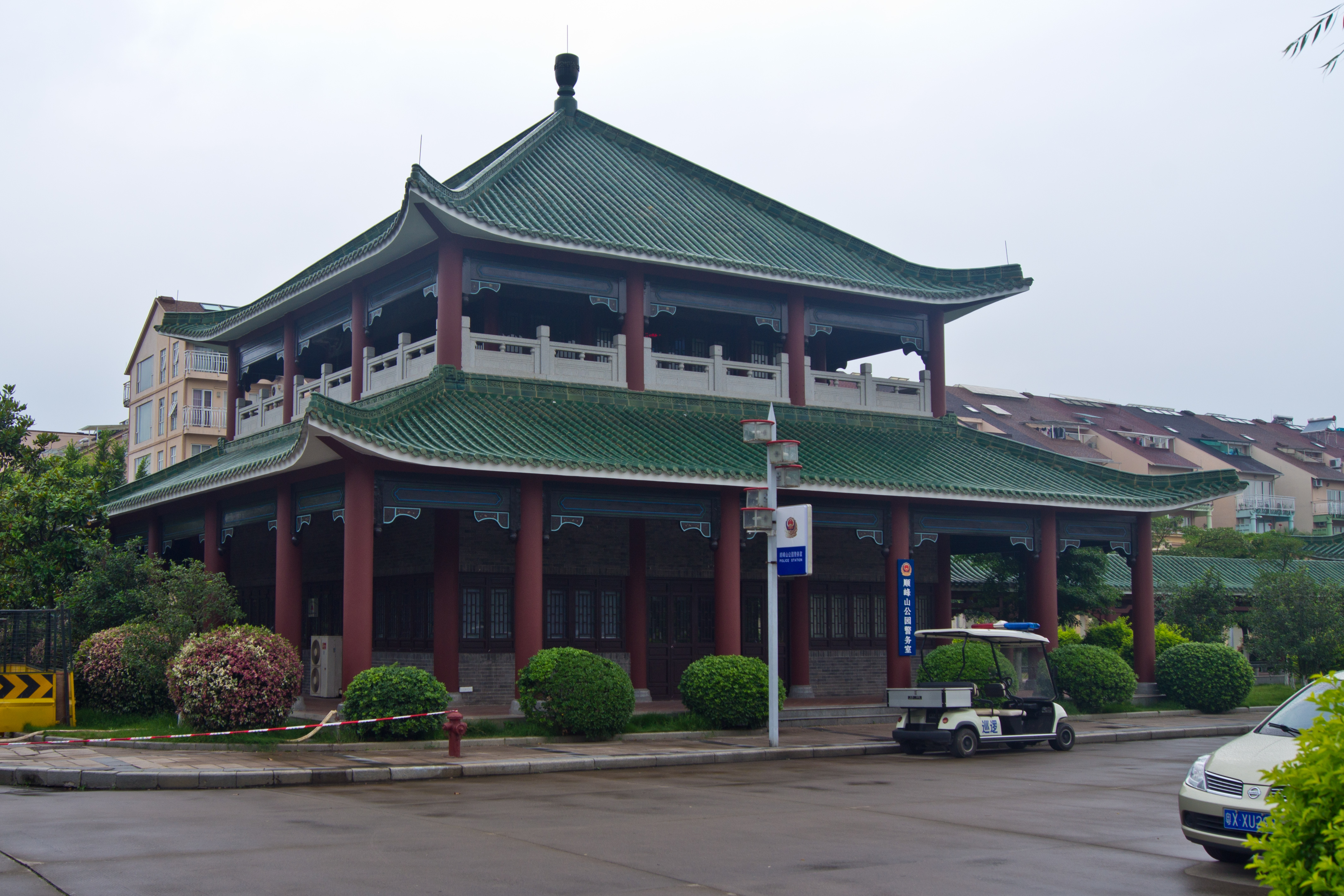 Shunfengshan Park Police Station